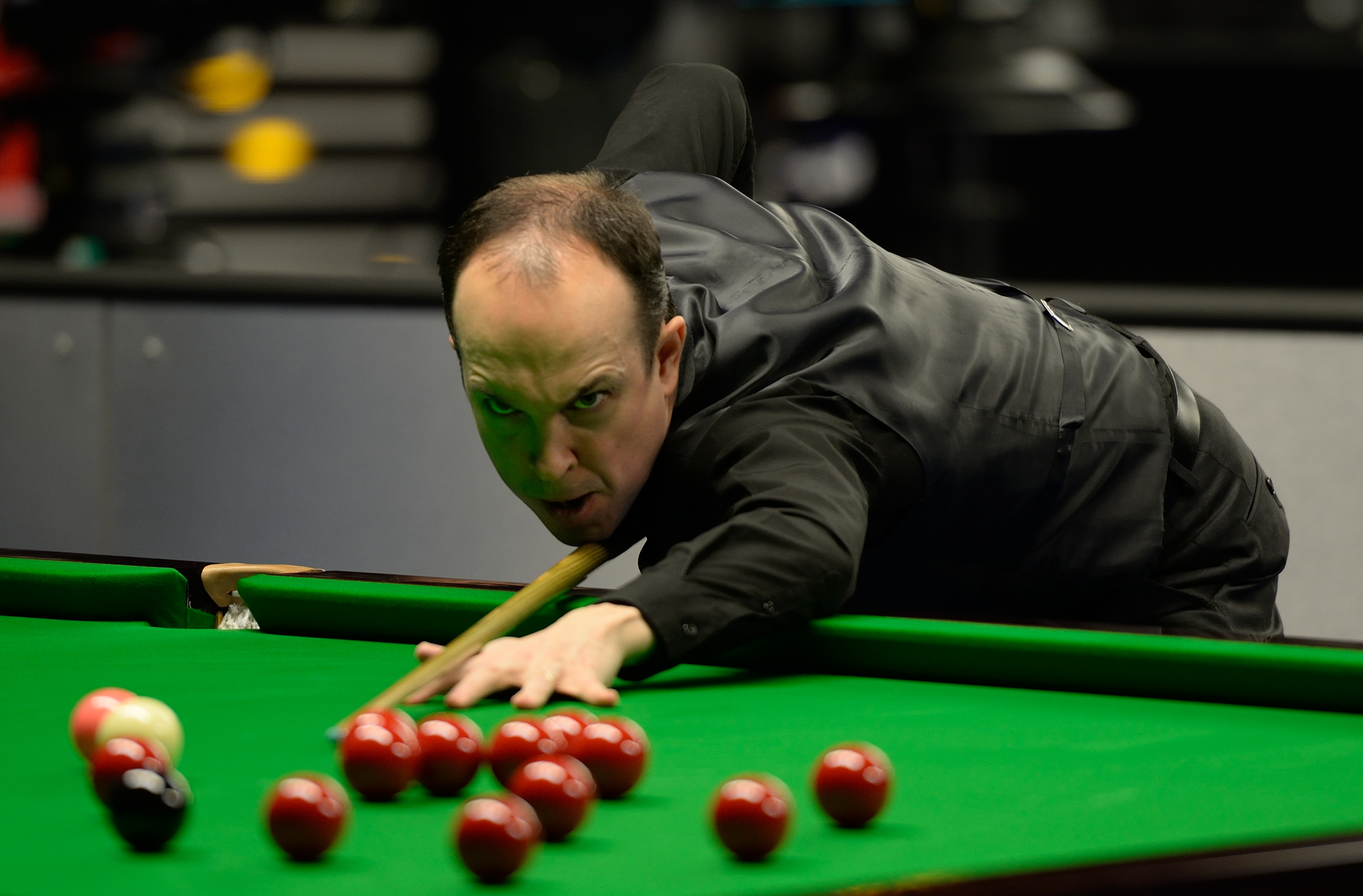 Picture taken in Berlin during the Snooker German Masters in 2015. Fergal O’Brien.